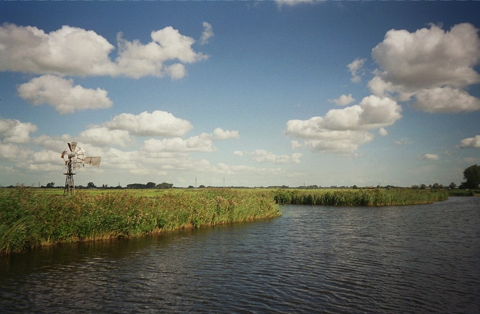 Nature reserve Wormer- en Jisperveld, looking roughly north from the road between Jisp and Neck.